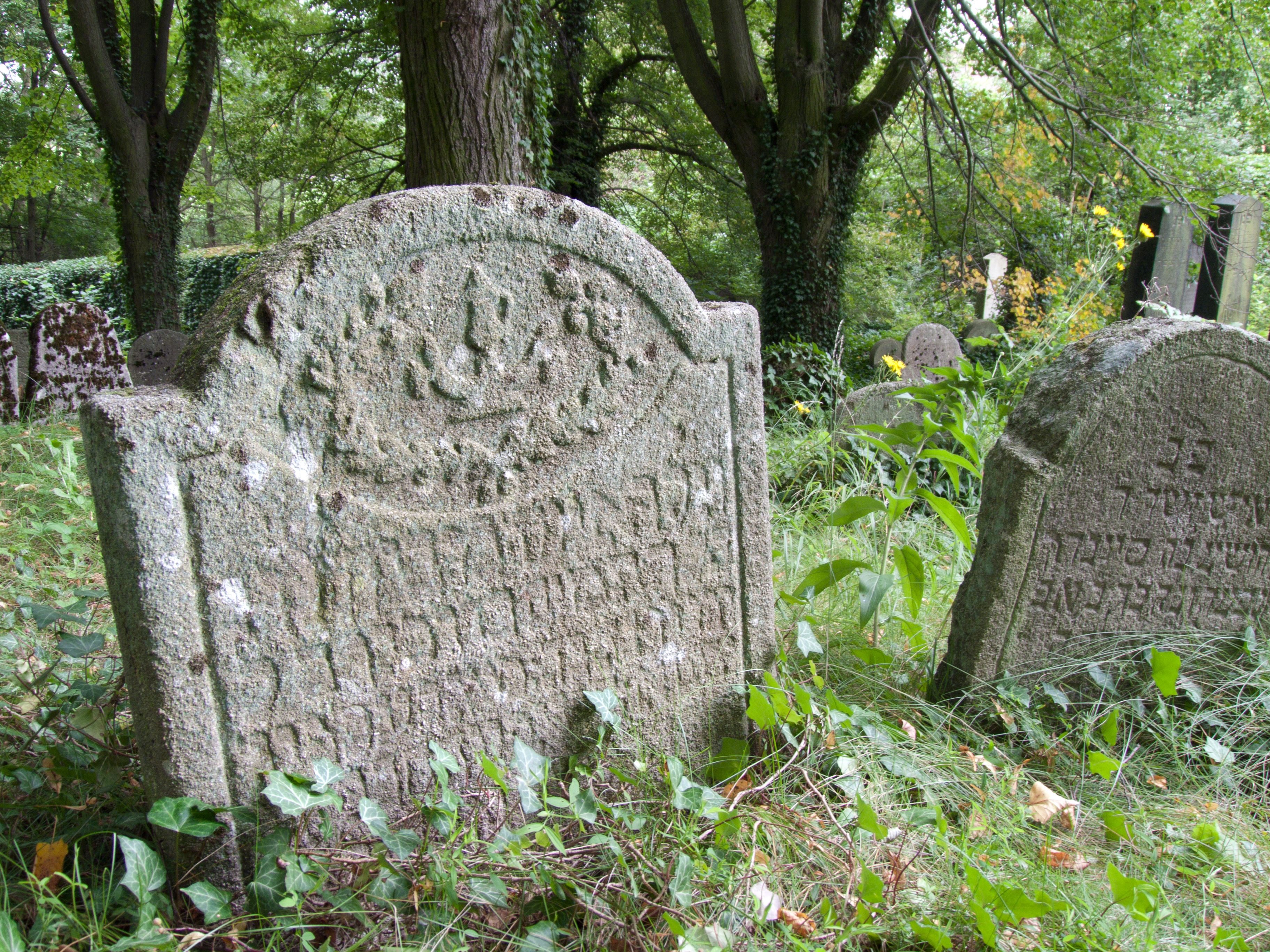 Gravestone with a jar symbol in the Jewish cemetery at the village of Koloděje nad Lužnicí, České Budějovice District, Czech Republic